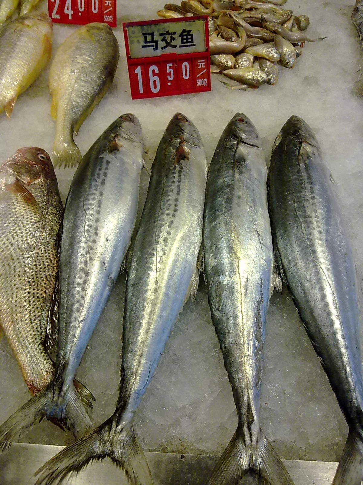 Japanese Spanish mackerel, 蓝点马鲛, Scomberomorus niphonius, also known as Japanese seerfish, on sale in a supermarket in Yuhuan, Zhejiang, PR China. The price is in RMB/500 g.